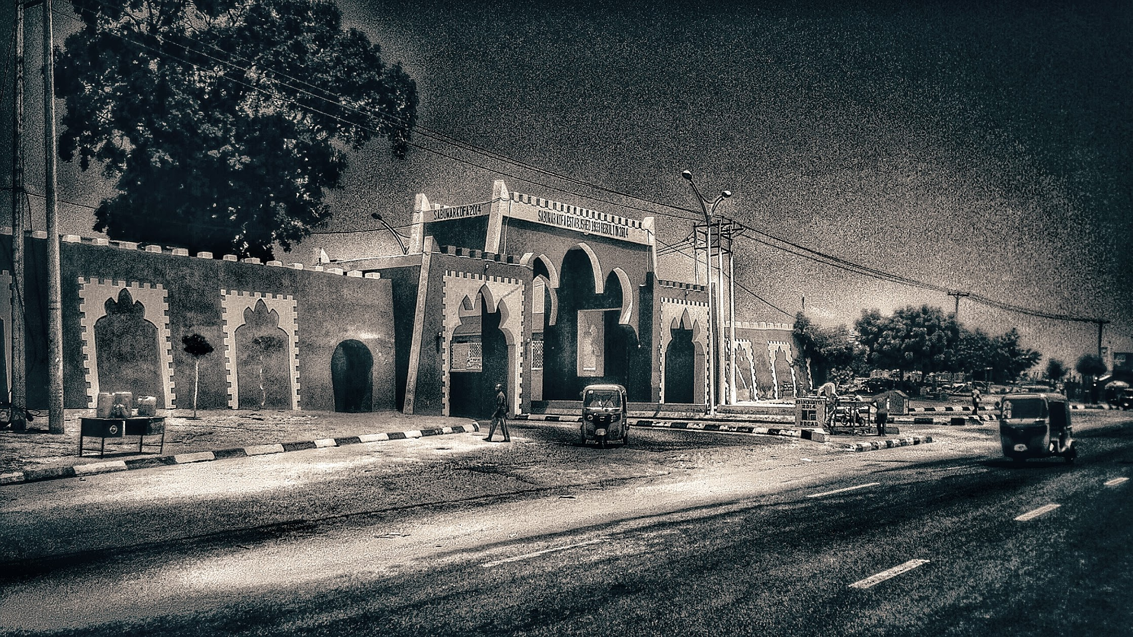 And edited image of the Kano Wall at Sabuwar Kofar